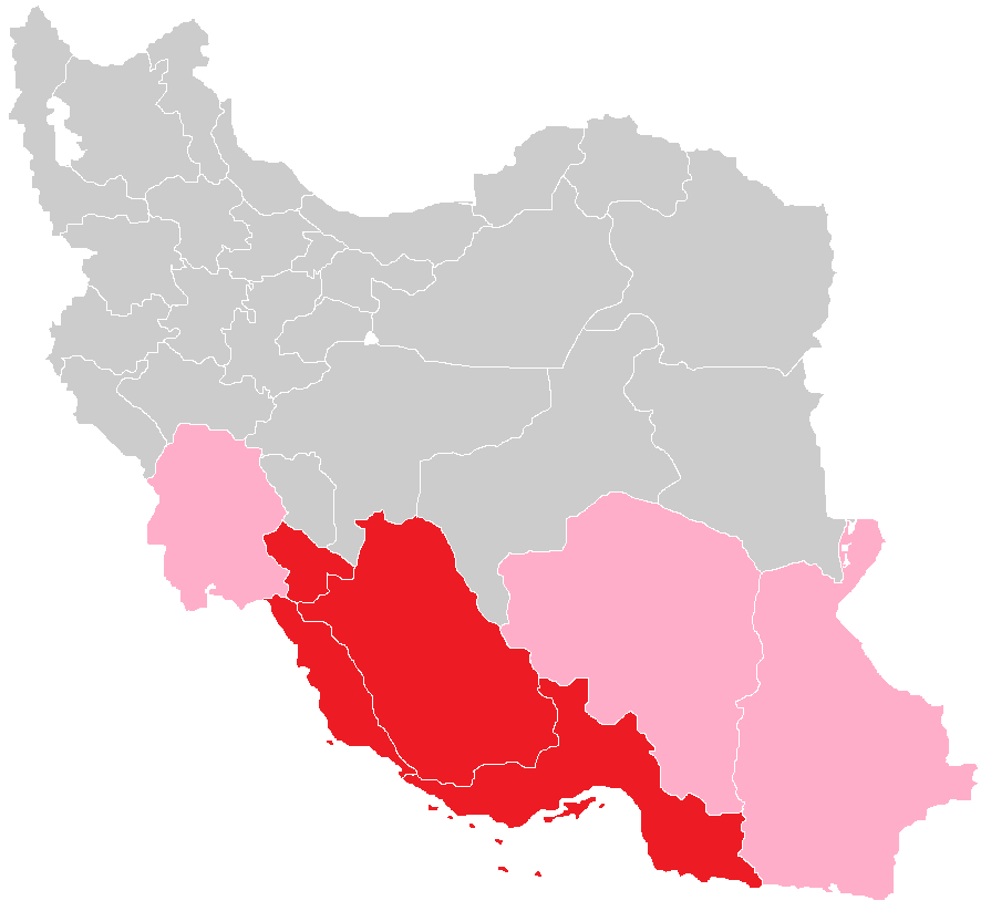 Southern Iran from File:Blank-Map-Iran.PNG